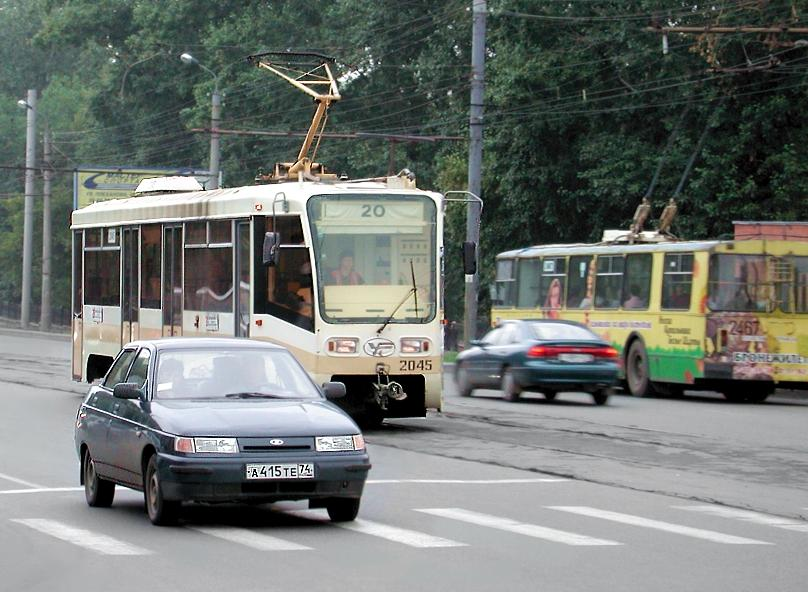 Chelyabinsk. Traffic on the Sverdlovsky boulevard.